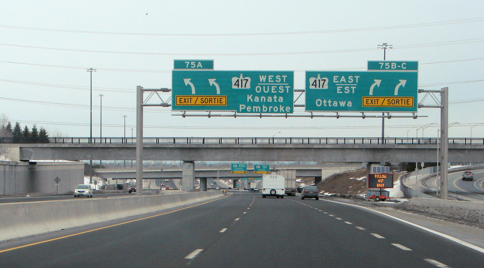 Highway 416 near its terminus at Highway 417 in Ottawa, Ontario, Canada